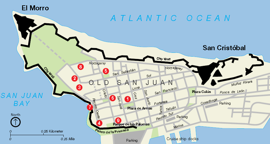 Old San Juan street map, San Juan, Puerto Rico 1 Alcadia - San Juan's City hall, built in 1602. 2 The Institute of Puerto Rican Culture 3 Casa Blanca - Ancestral home of the Ponce de Leon family, now a museum. 4 La Fortaleza - Oldest governor's mansion in continuous use in the New World. 5 San Jose Church - (1532) Second oldest church in continuous use in the New World. 6 San Juan Cathedral - (1540) Burial site of Ponce de Leon. 7 San Juan Gate - Traditional entrance to San Juan. 8 Ballaja Barracks - Museum of Americas highlights colorful folk art. 9 La Casa del Libro - Museum of the art and history books through five centuries.